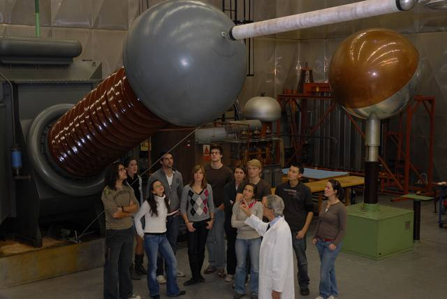 High-Voltage Laboratory, Faculty of Electrical Engineering, CTU in Prague